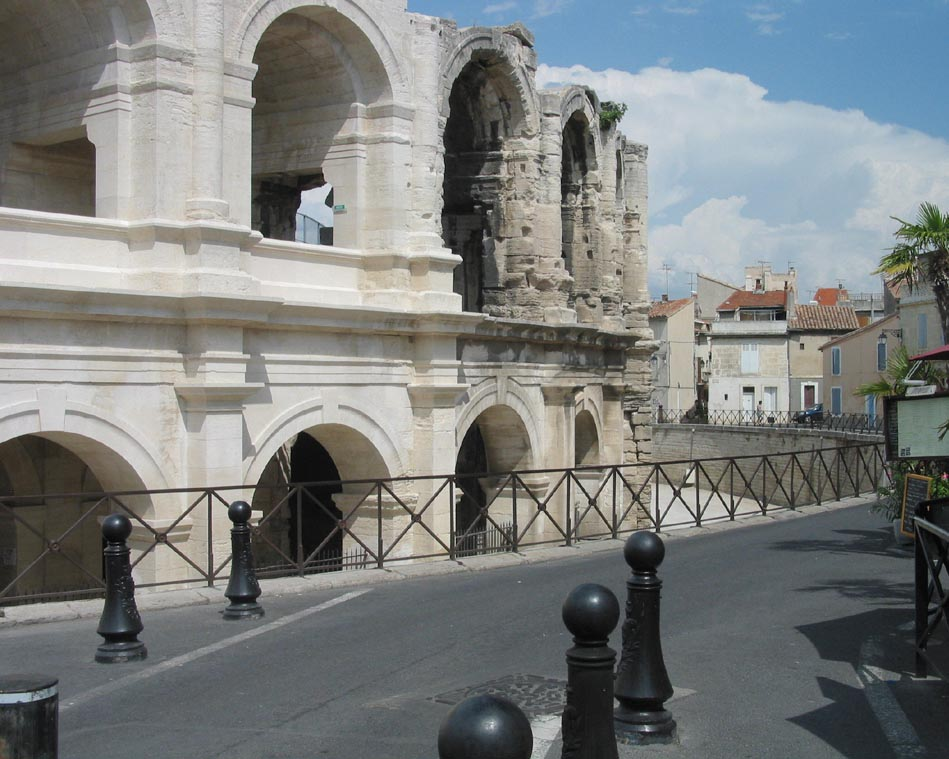 Arles: Les Arénes (amphitheater) after partly restoration in 2006. New at the left, old at the right.